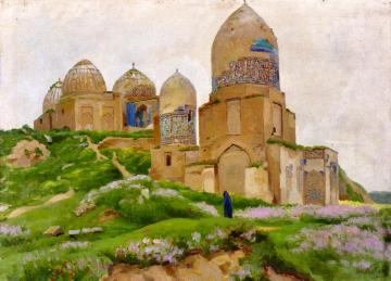 Domes of the Shah-I-Zinda Mausoleum